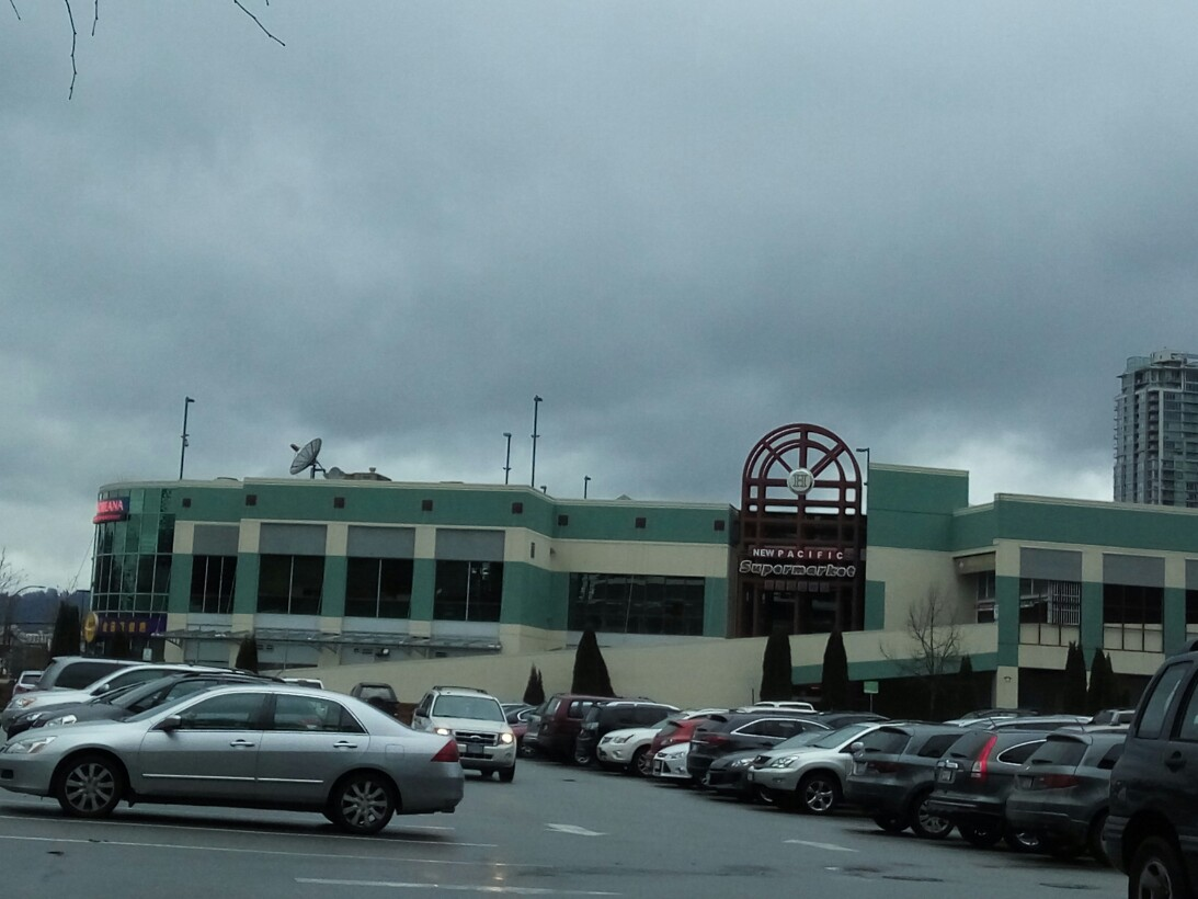 Henderson place, coquitlam bc